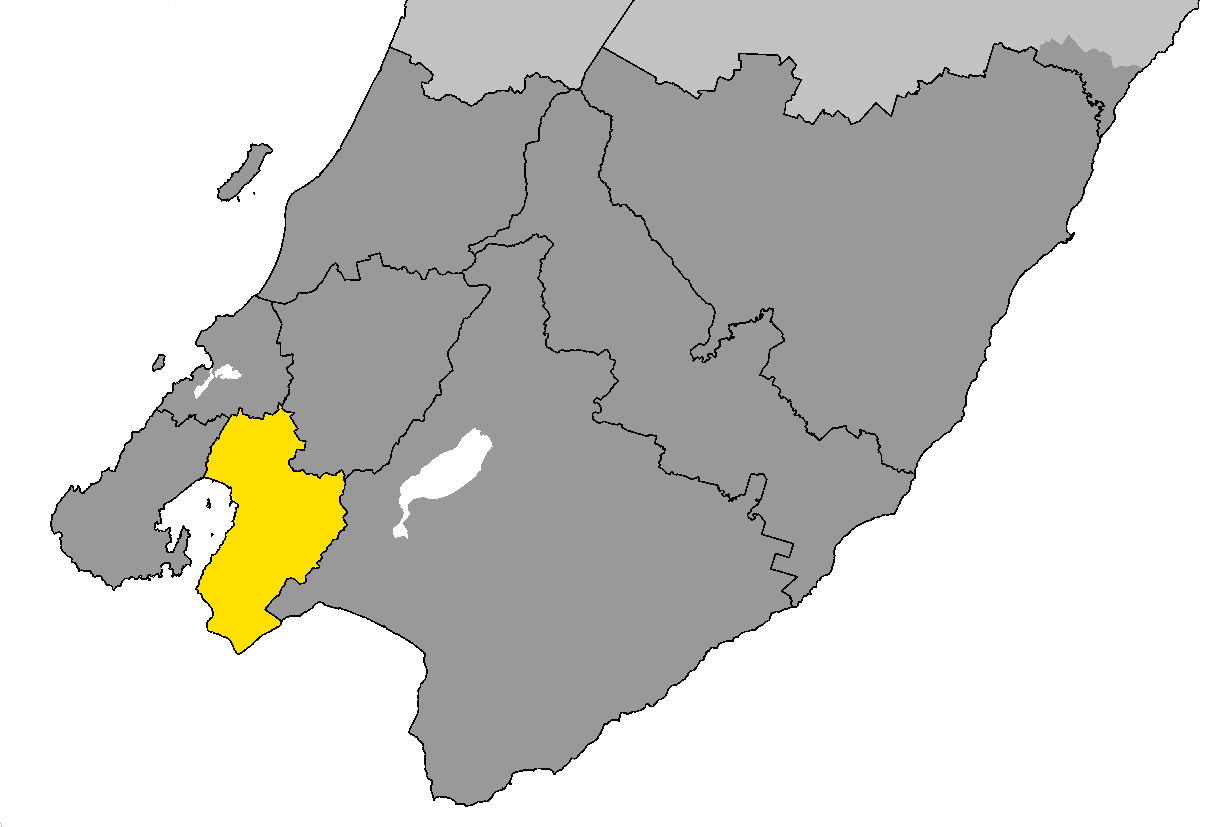 Lower Hutt City (in yellow) within Wellington Region (dark grey)